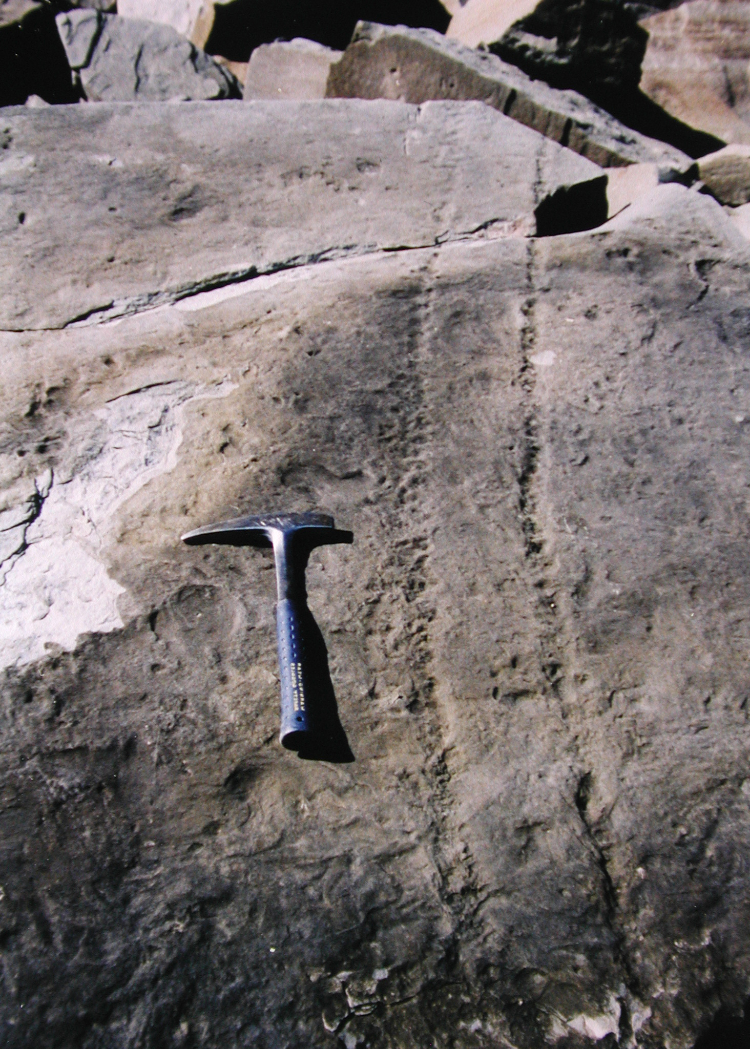 Oblique bedding plane view of large Diplichnites from the Joggins Formation (Pennsylvanian), Cumberland Basin, Nova Scotia. This trackway was made by the large millipede Arthropleura.